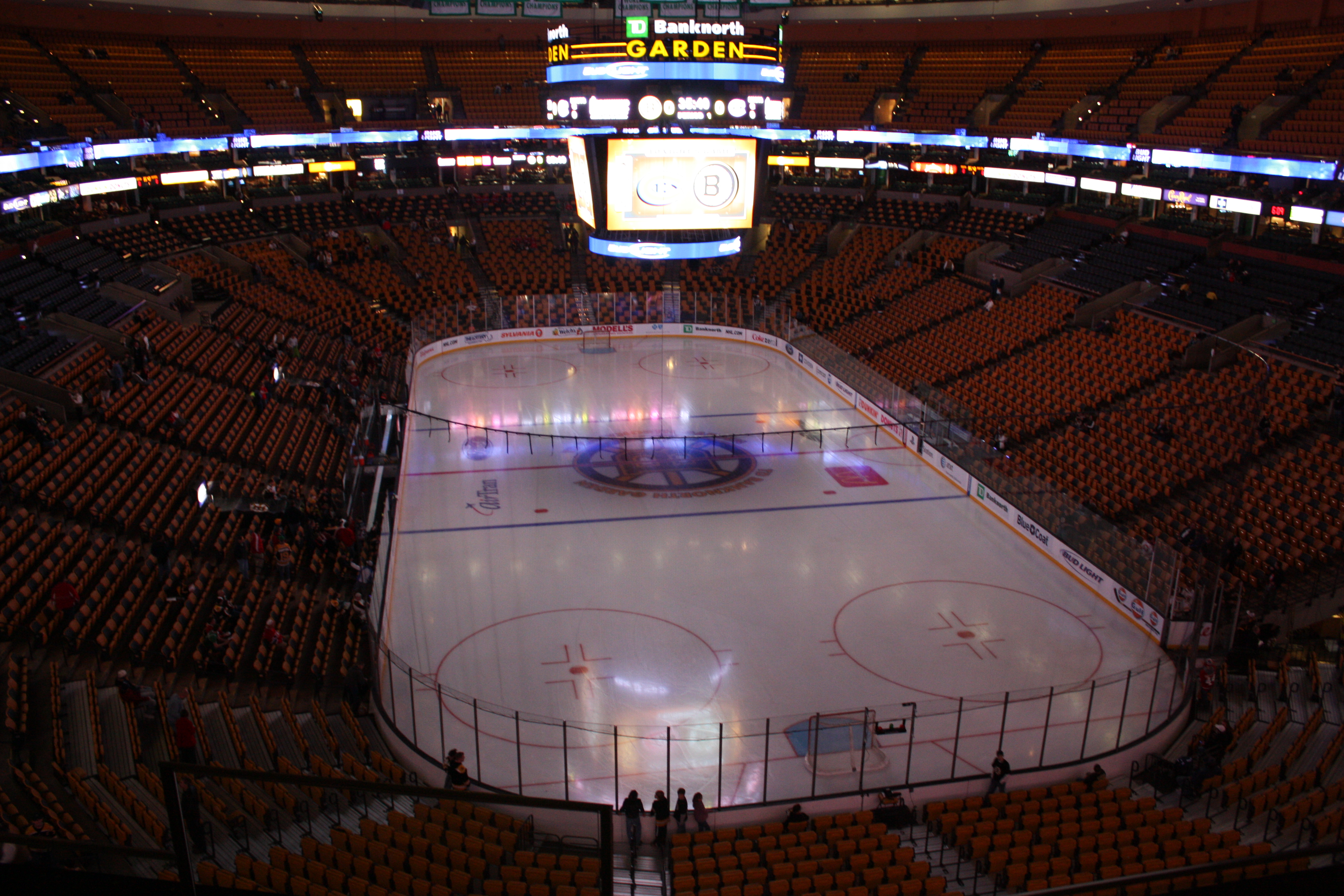 TD Garden in Boston prior to an NHL game between the Boston Bruins and the Montreal Canadiens